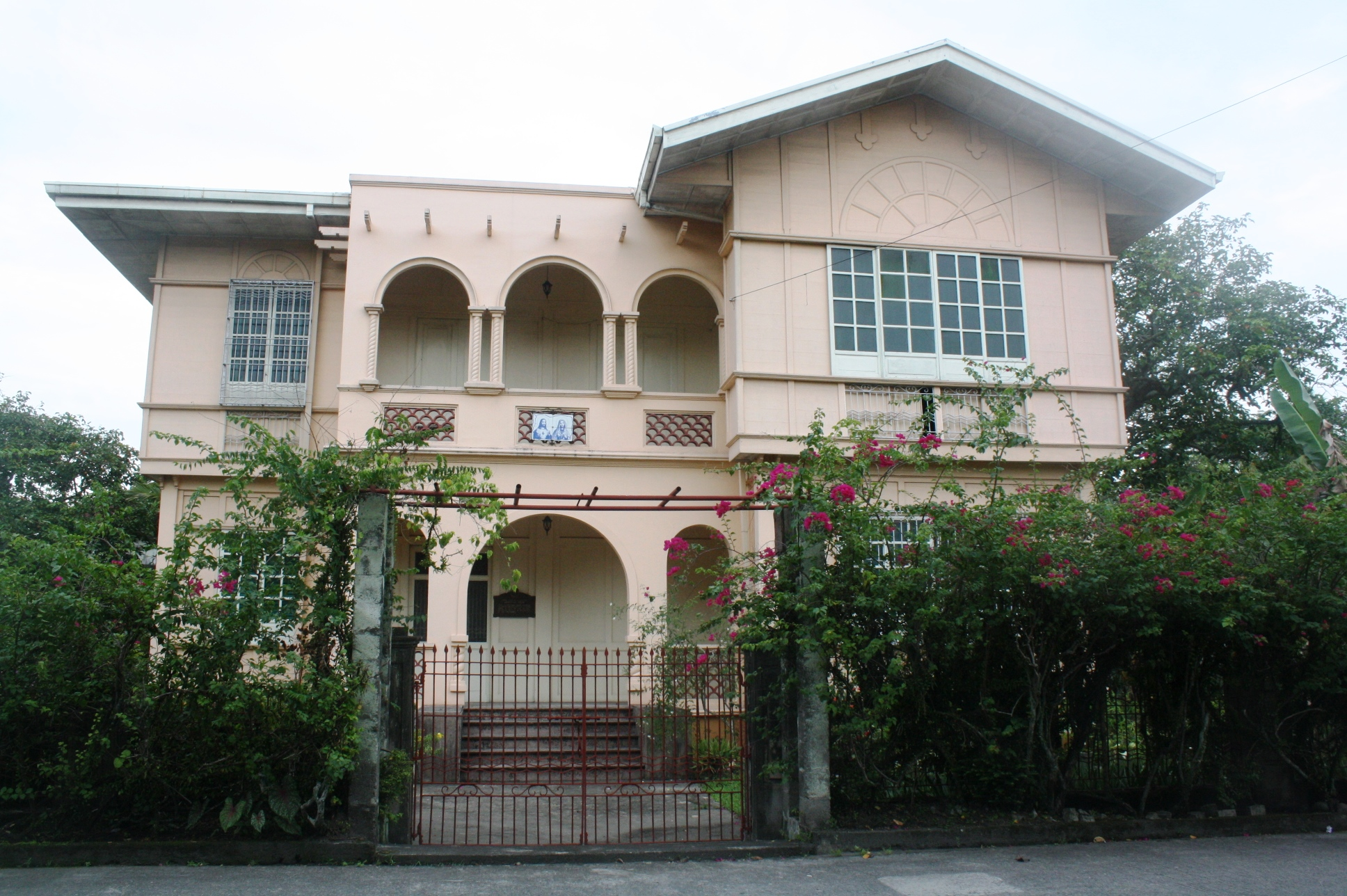 Jose Corteza Locsin ancestral house facade.